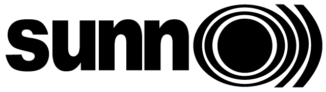 Logotype of the Drone Metal Band Sunn O))) and the amp manufacturer Sunn, which was later bought by Fender